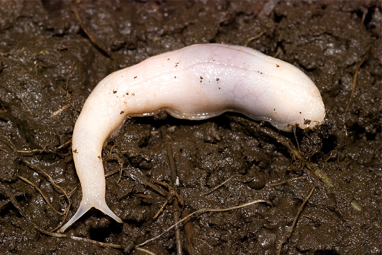 An adult specimen of Selenochlamys ysbryda or the Ghost Slug. The slug's eye stalks are in clear view showing the absence of any eyes.